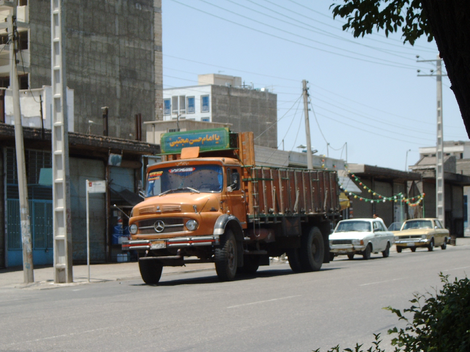 Mercedes truck produced by Irankhodro Aufgenommen Juni 2006 in Saveh, Iran.